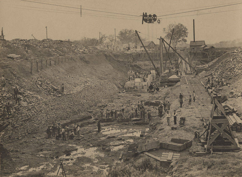 Beginning construction of the Colbert Shoals lift lock, (Riverton Lock) Riverton, Alabama.